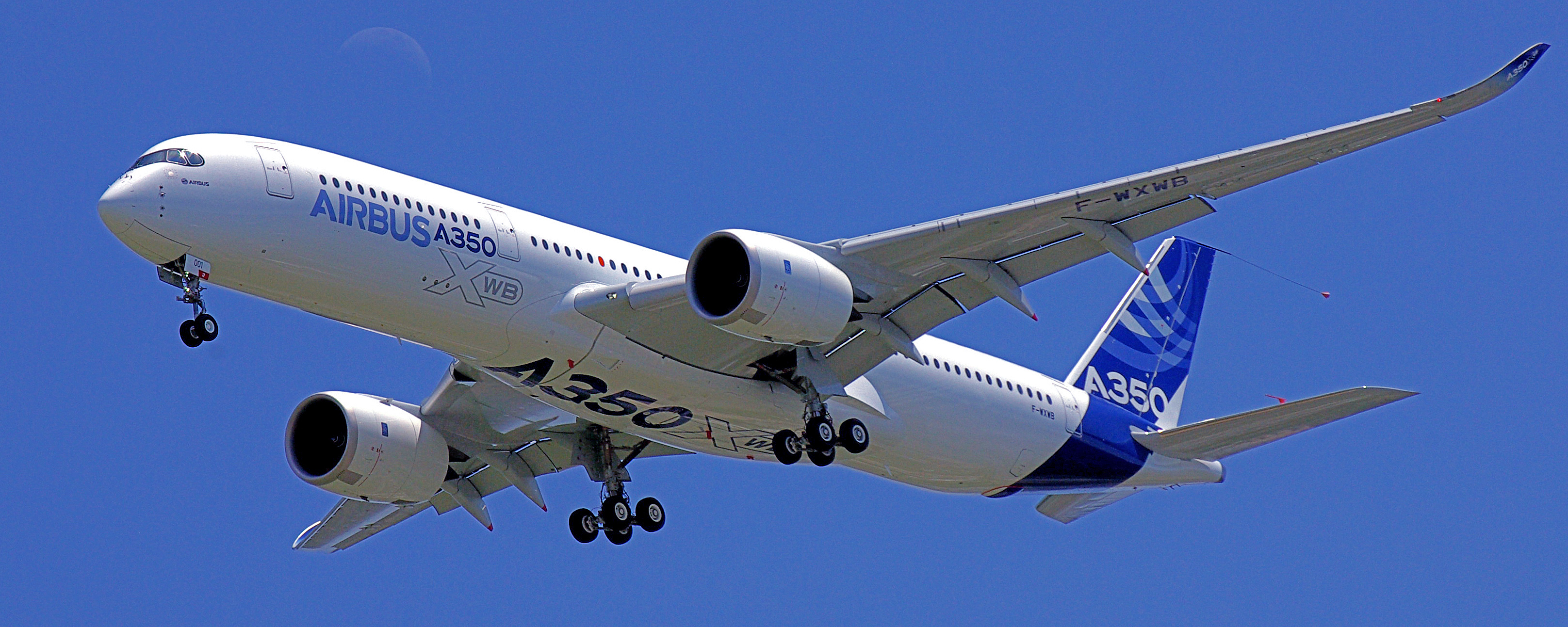 Low pass of the Airbus A350-900XWB before landing of her maiden flight.